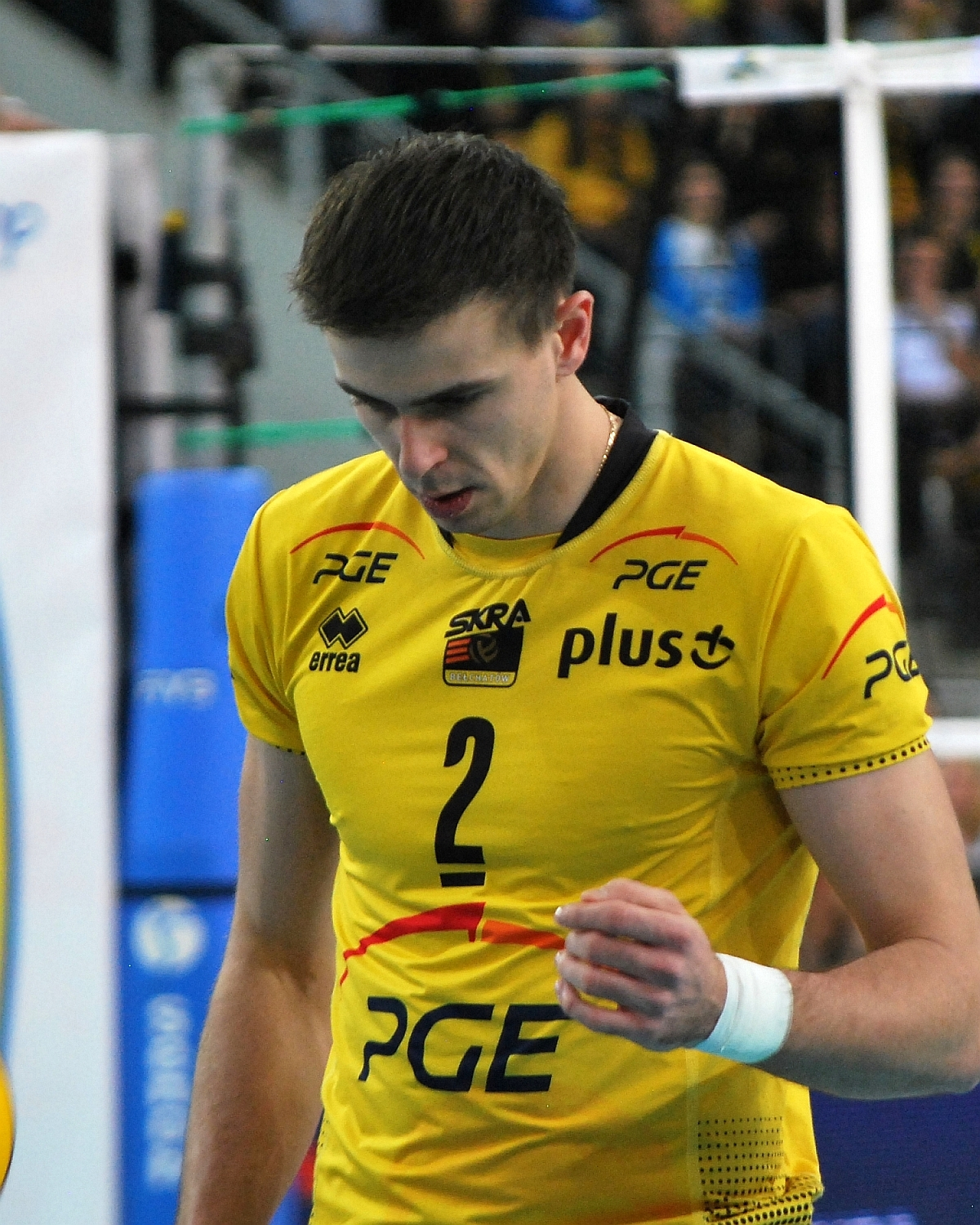 Mariusz Wlazły, volleyball player from Poland